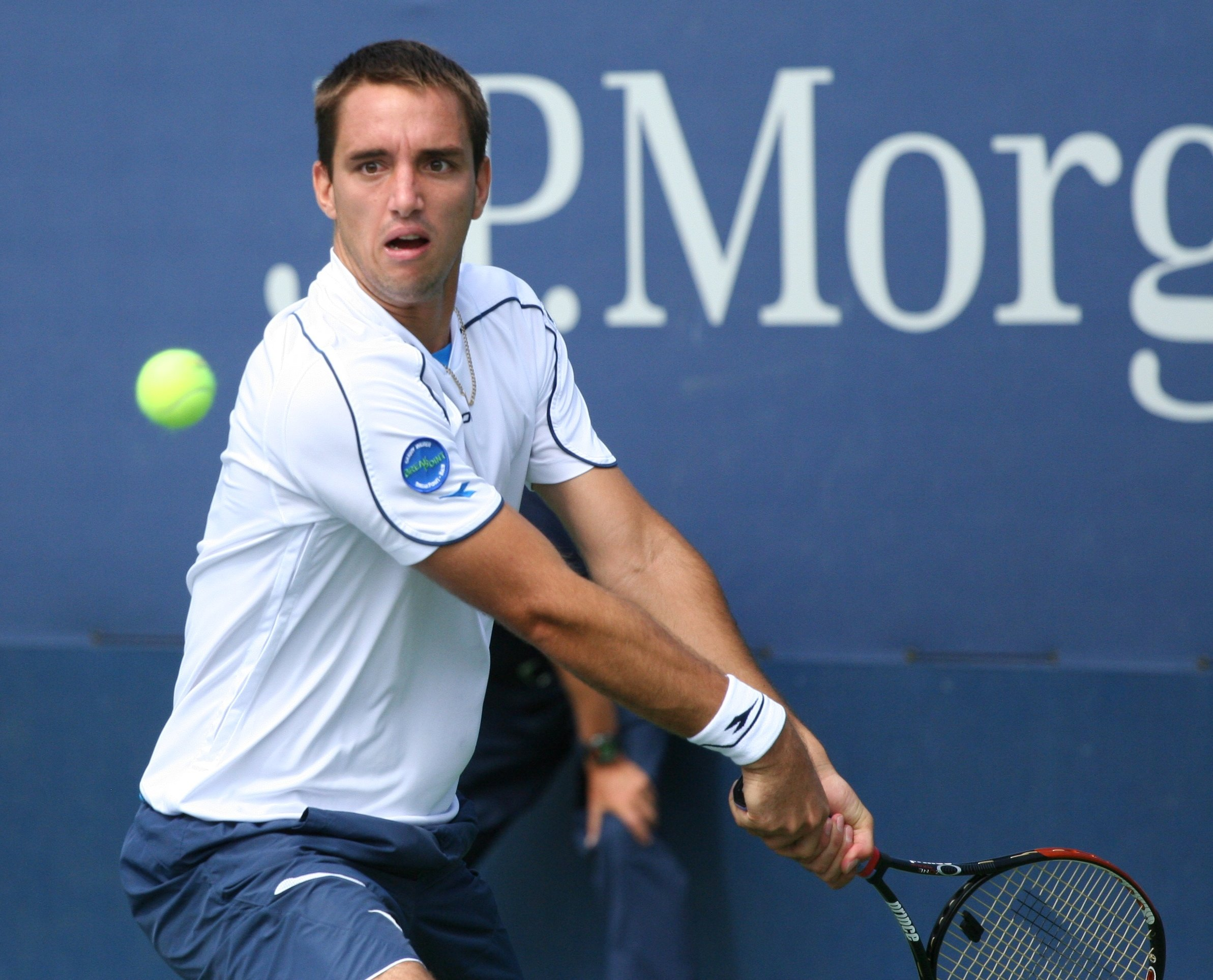 U.S. Open Friday, Sept. 4, 2009